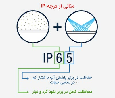 A example of IP